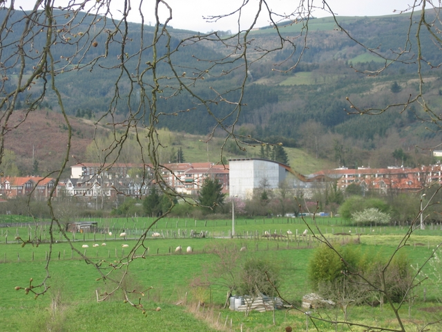 Cinema and theatre of Zalla (Biscay, Spain)